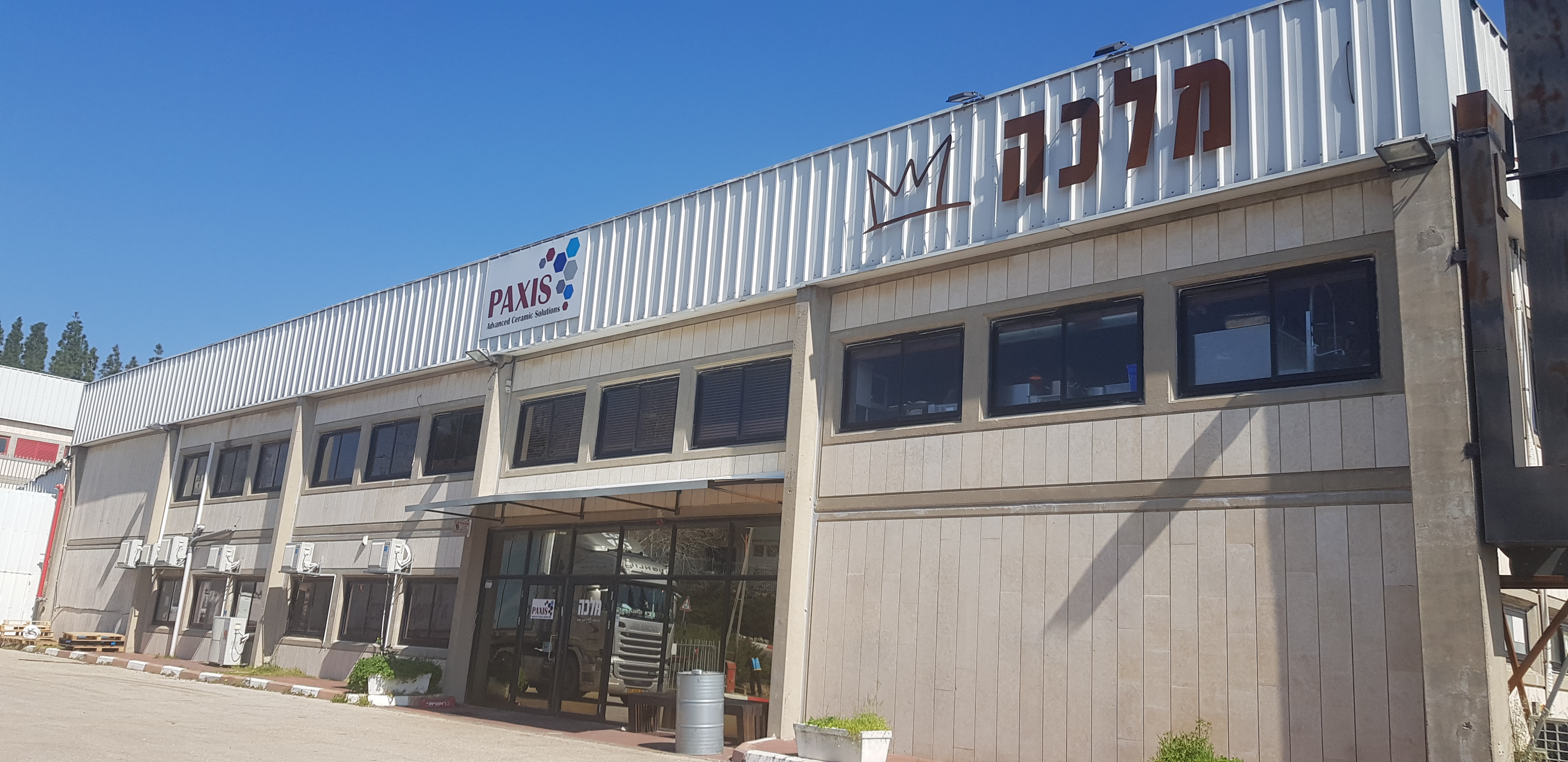 Malka Beer factory in Tefen Industrial Park, Galilee, Israel